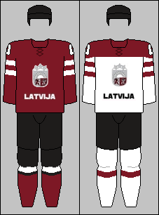 The home and away jerseys of the Latvian national ice hockey team with the Latvian coat of arms in the middle, as used at the 2014 Winter Olympics in Sochi.